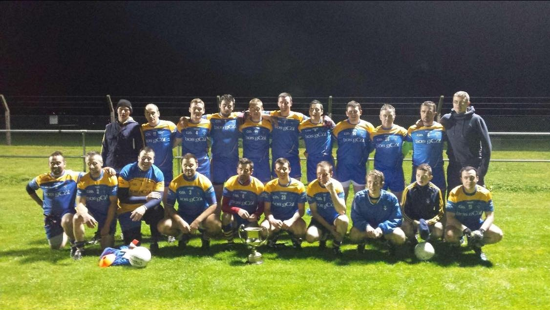 Junior Football Division One Winners 2014.